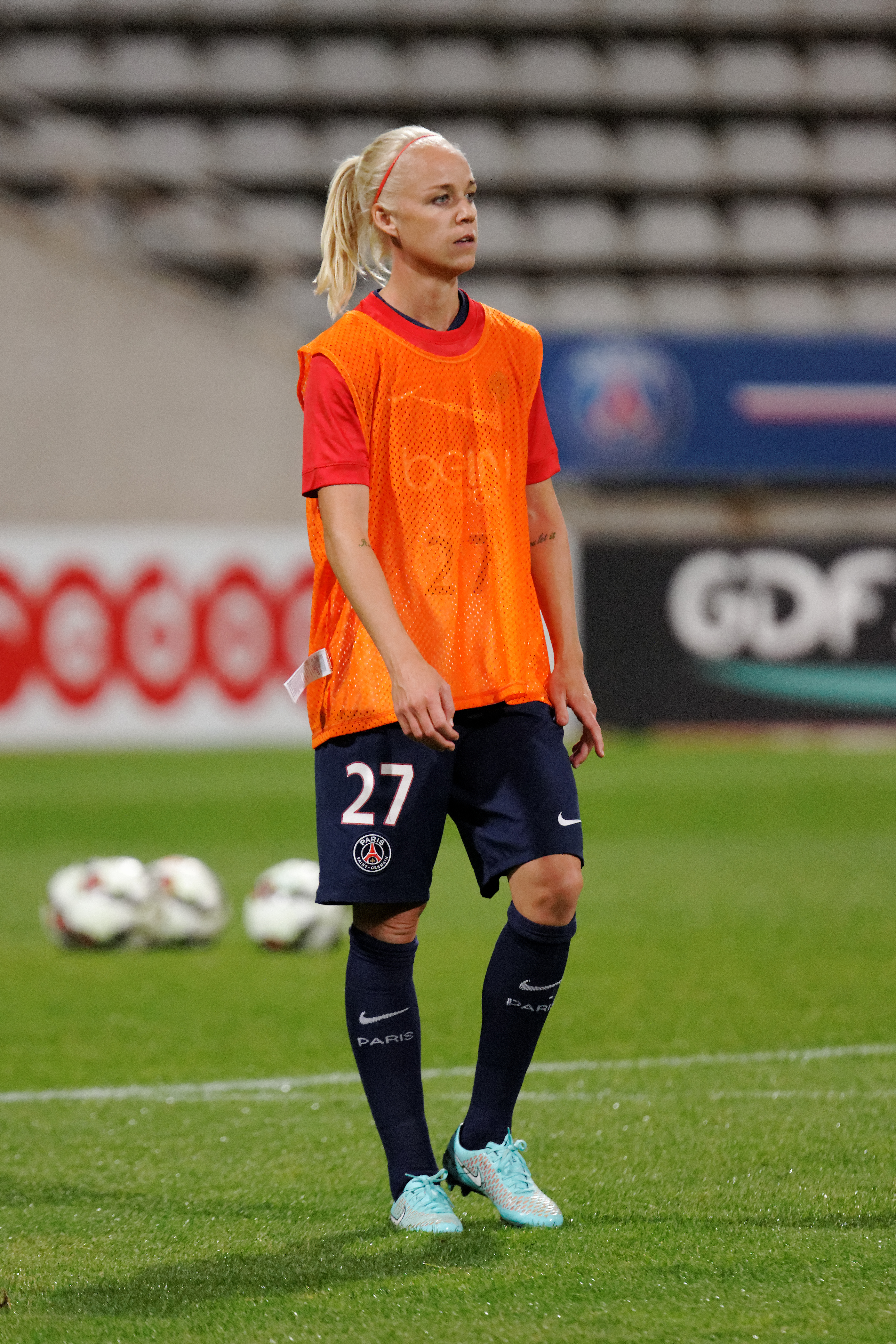 UEFA Women's Champions League, PSG - Twente, 15 October 2014